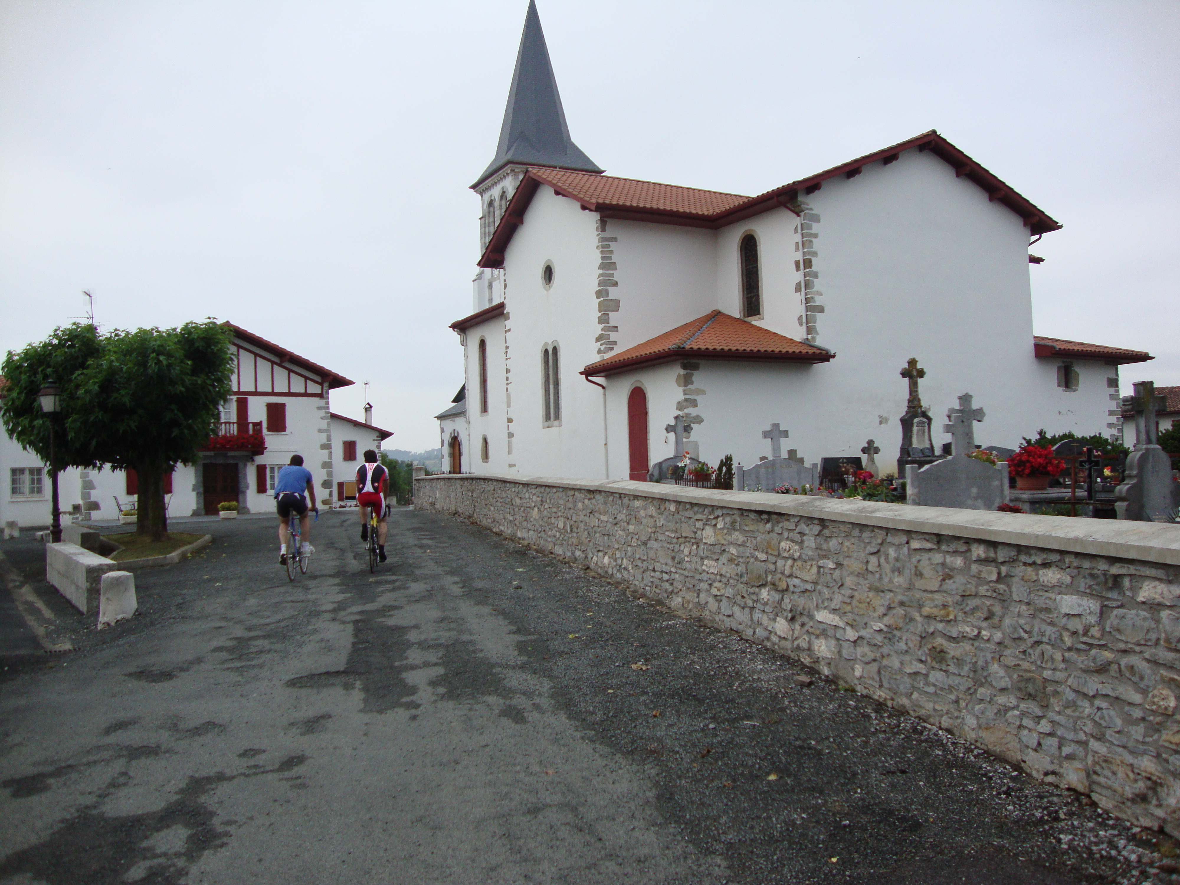 Beyrie-sur-Joyeuse_(Pyr-Atl,_Fr) the church with partly view of the cemetery.JPG